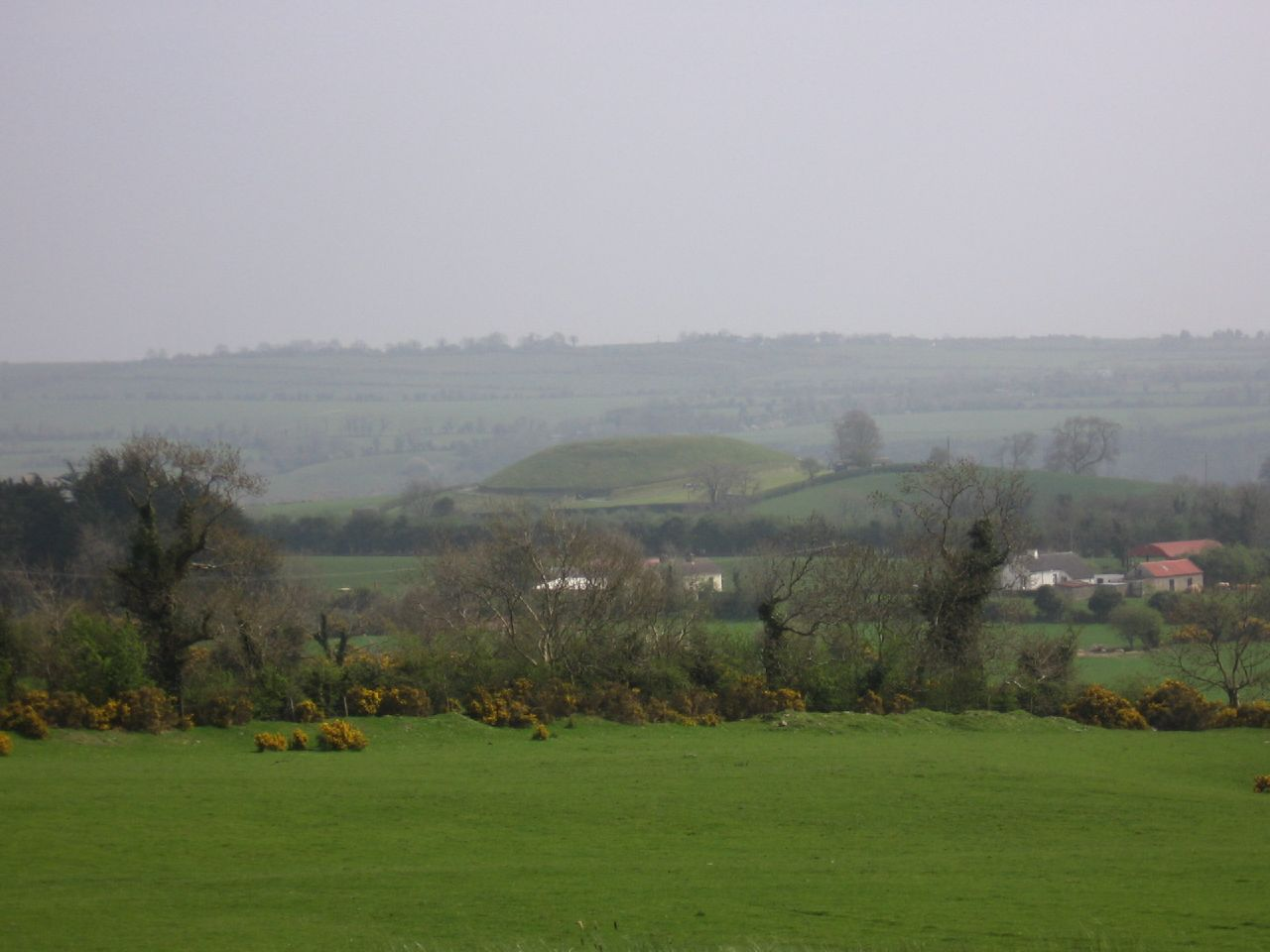 Dowth